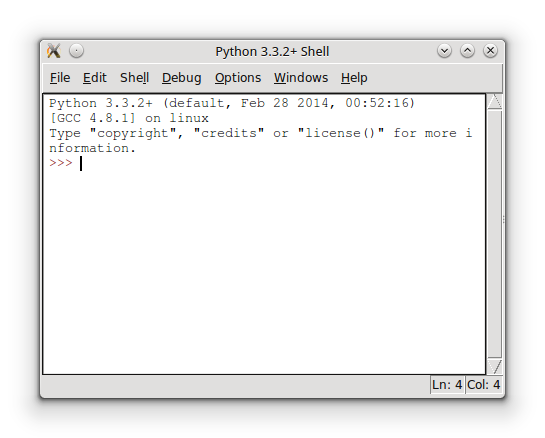 IDLE (Python 3.3.2)